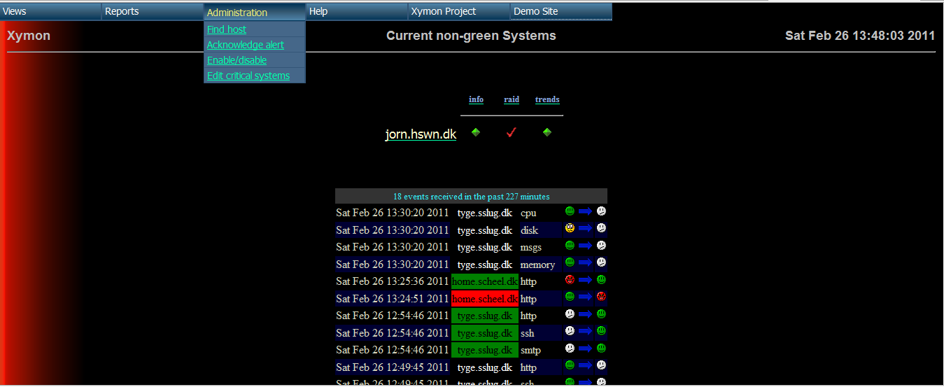 View of the Xymon (alias Big brother or Hobbit) software.